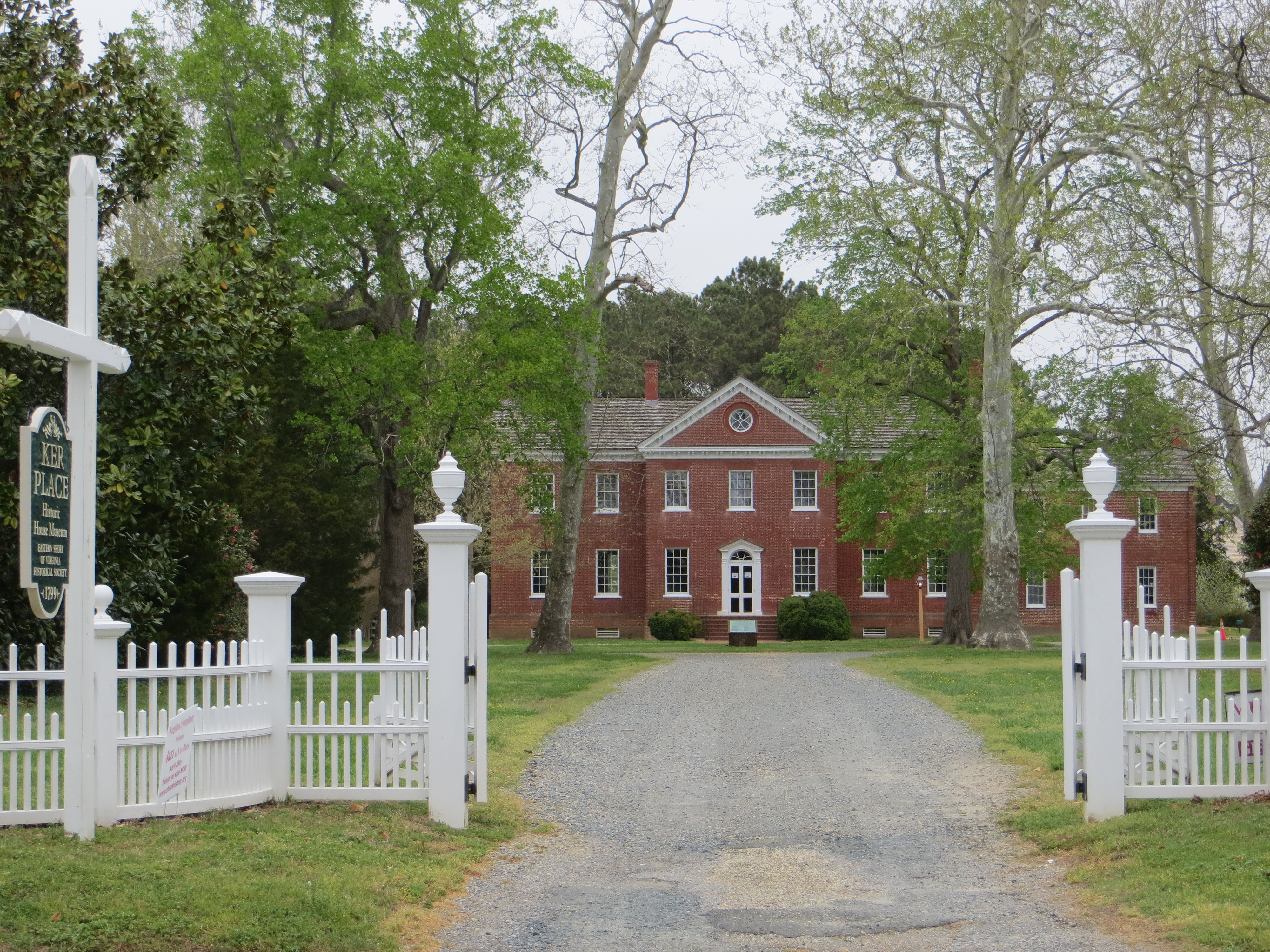 Entrance to Ker Place, 69 Market St., Onancock, Virginia